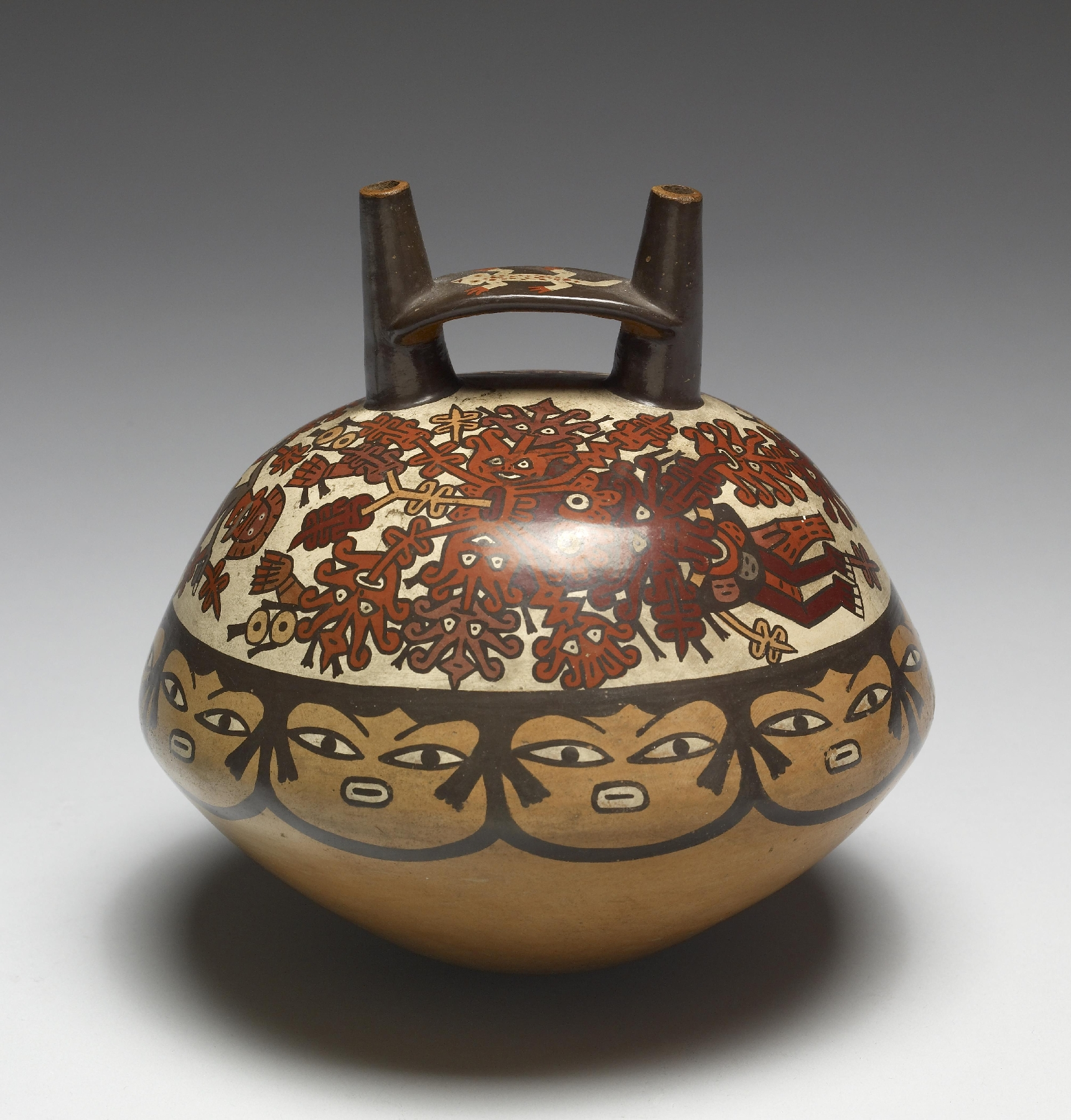 This object pertains to the Andean theme of sacrifice and death as a religious act of regeneration and renewal. The expertly painted Nasca bottle, with double spouts and bridge handle, represents the highest achievement in quality and pictorial complexity of Nasca pottery painting. Its imagery features the so-called Anthropomorphic Mythical Being, which may symbolize powerful spirits in nature. At least fifteen subtypes of this spirit being are known, each perhaps corresponding to specific forces. A shared icon among them is the presence of trophy heads hanging at the waist (as seen here) or in close proximity to its mouth. On this vessel, a Nasca warrior grasps the being's "tail" as if he has captured or is in control of the spirit force. The line of female heads around the vessel may be a symbolic representation of the earth. The images on the pottery vessel relate to the theme of sacrifice and agricultural fertility. Among the Nasca, the severed head was likened to a seed from which sprang renewed life in the form of young plants; large caches of trophy heads found at Nasca sites are the remains of religious rites intended to ensure agricultural success. In short, the human trophy head was not only the most sacred of offerings to the spiritual forces of nature; they were also integral to the pan-Andean ideology of death and regeneration, being but two parts of the same universal dyad. Death, caused by sacrifice and decapitation, is not the end; rather it leads to rejuvenation and new life.